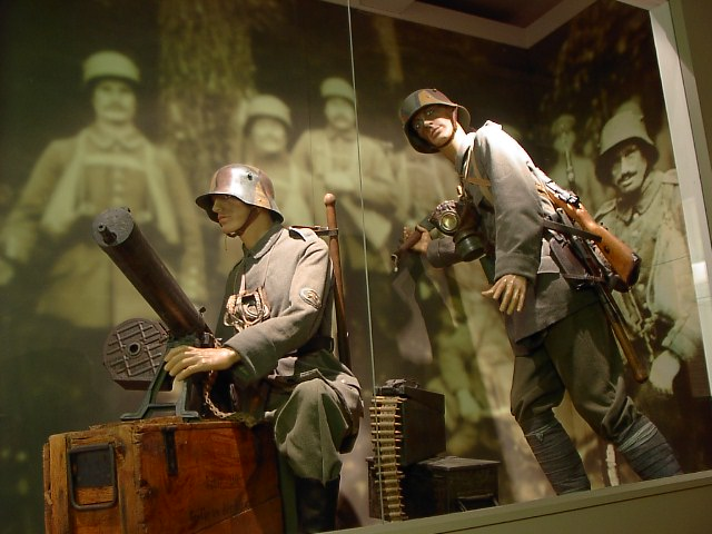 A German World War I stahlhelm in the Memorial Museum Passchendaele 1917 in Zonnebeke.